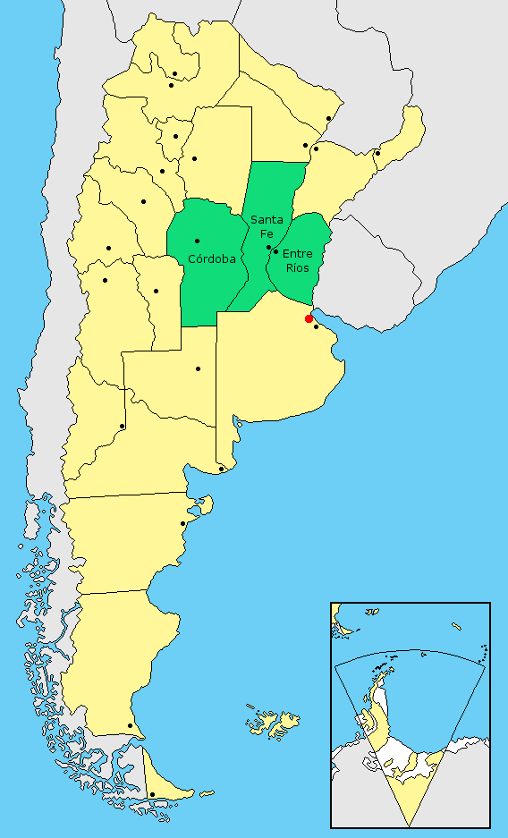 A map of the Center Region of Argentina, formed by the provinces of Córdoba, Santa Fe and Entre Ríos.